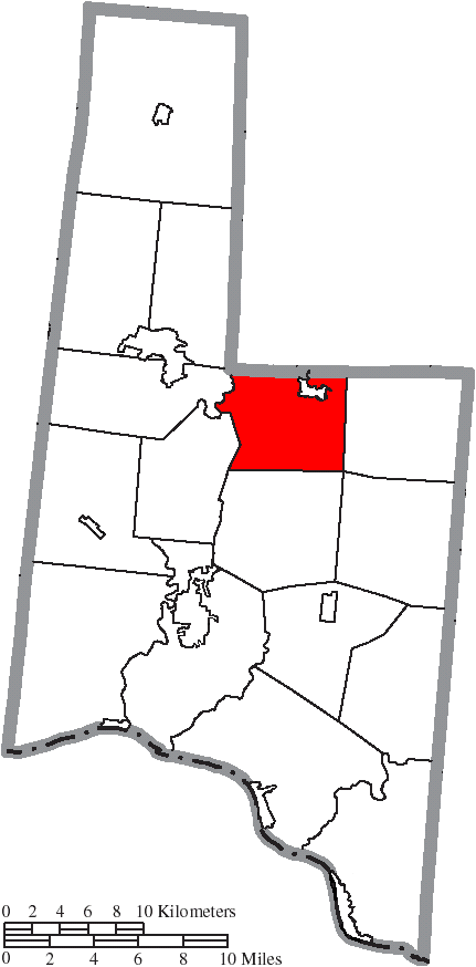 Map of the municipal and township boundaries of Brown County, Ohio, United States, as of the 2000 census, with the location of Washington Township highlighted. Township borders are shown only in unincorporated areas in order to differentiate incorporated and unincorporated areas more clearly.